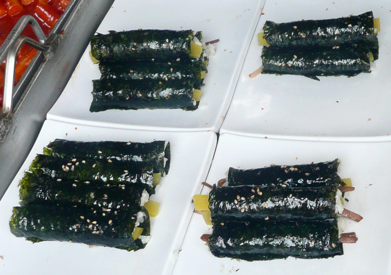 Gimbap - a popular Korean snack made from steamed white rice, similar to Japanese rolled sushi